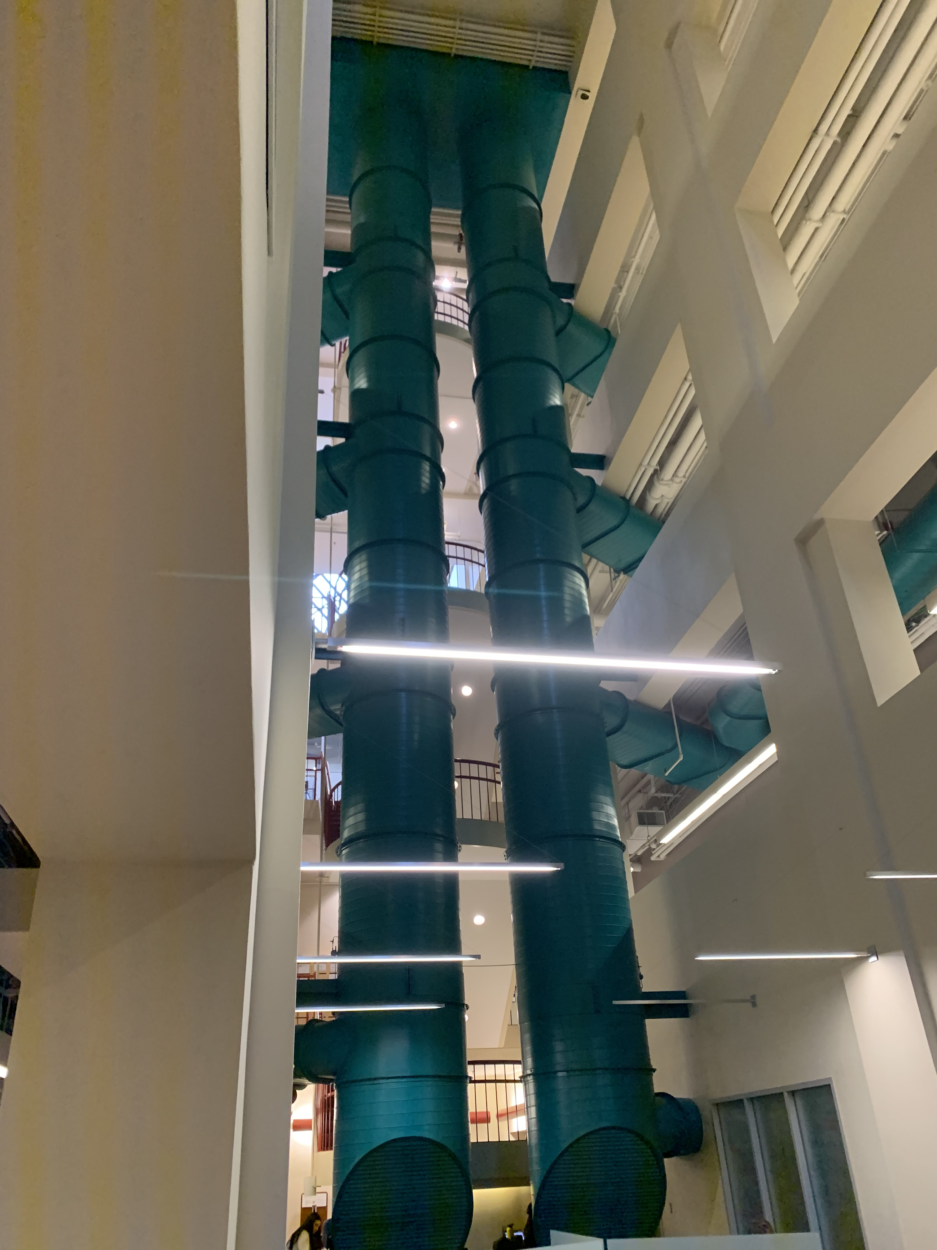 Green HVAC pipes retrofitted into the Metcalf Center for Science and Engineering